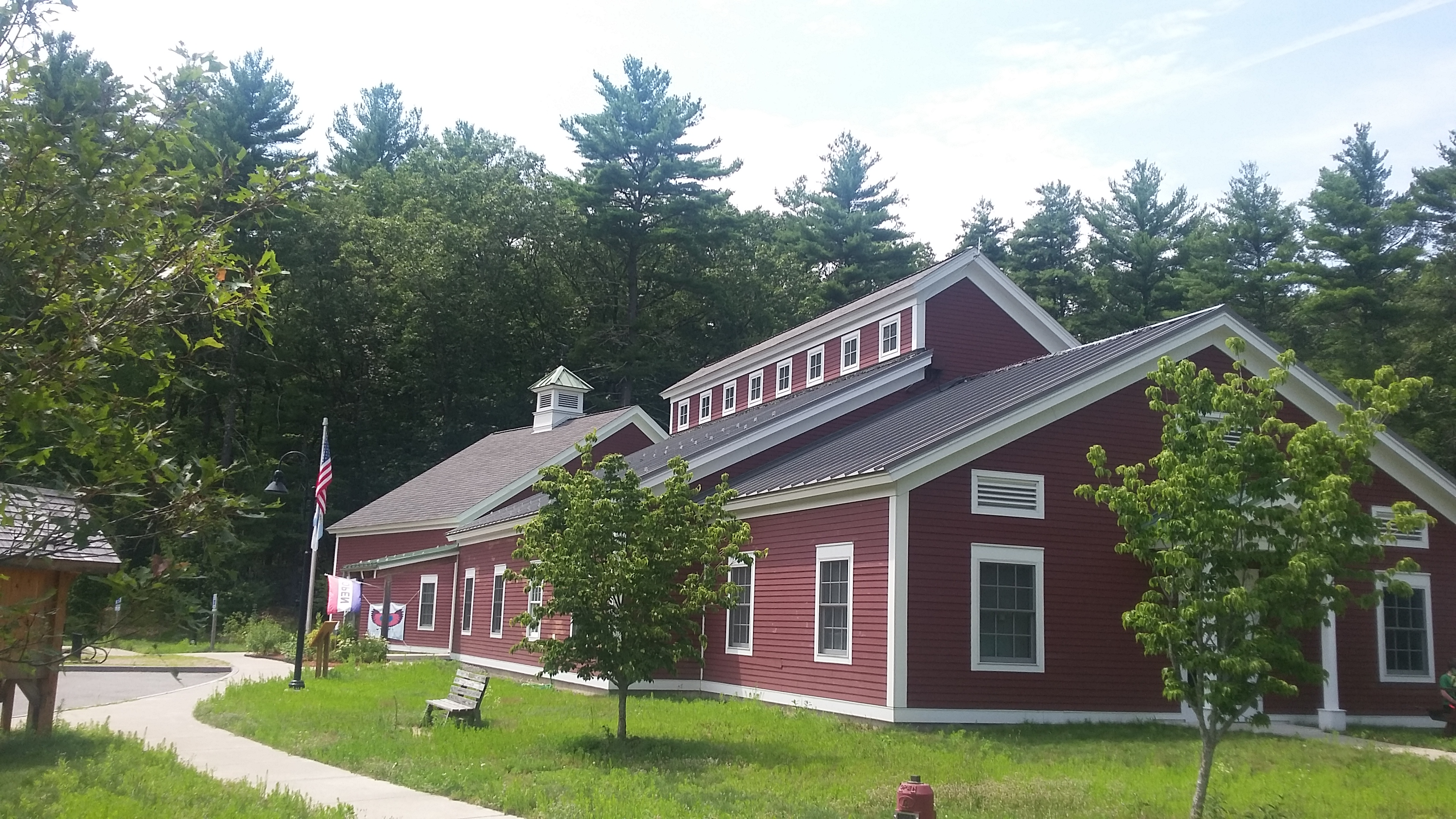 Visitor Center at Assabet River Wildlife Sanctuary in Sudbury MA